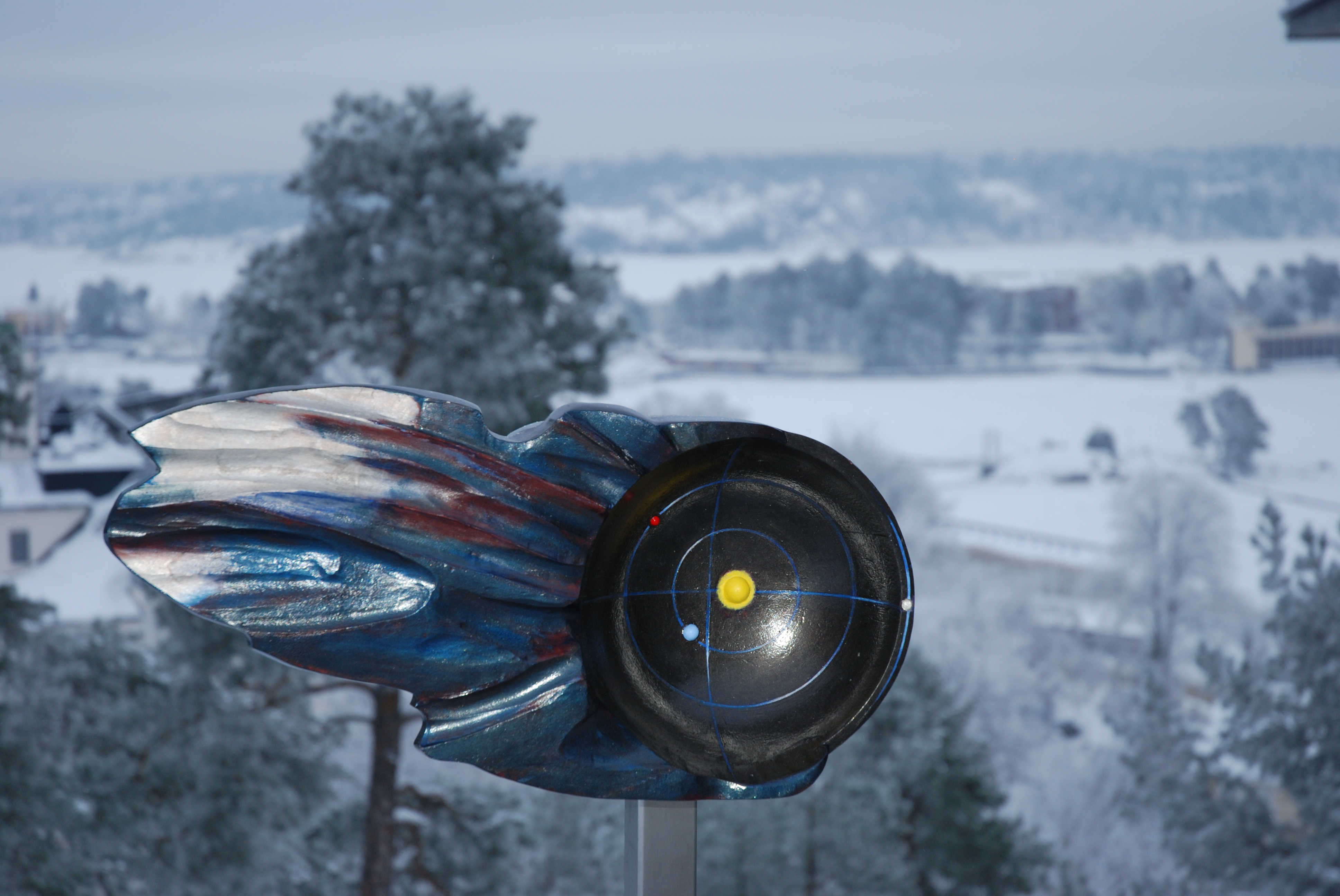 Sculpure Saltis by Bosse Falk, Saltsjöbaden, Sweden. Part of Sweden Solar System, a large scale model of the solar system.